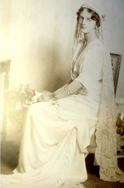 Princess Irina Alexandrovna of Russia on her wedding day.